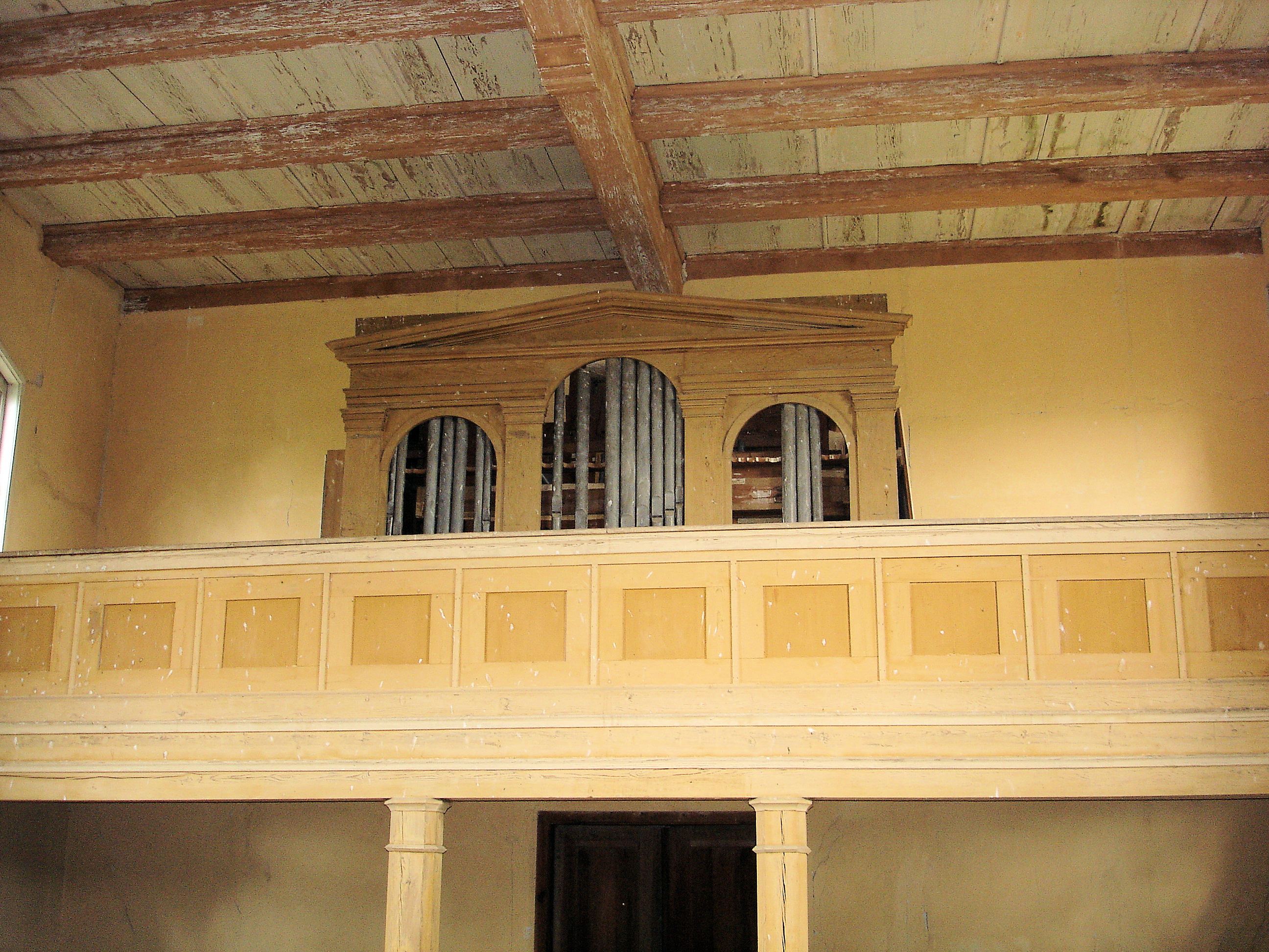 Church in Alt Gaarz, Mecklenburg, Germany